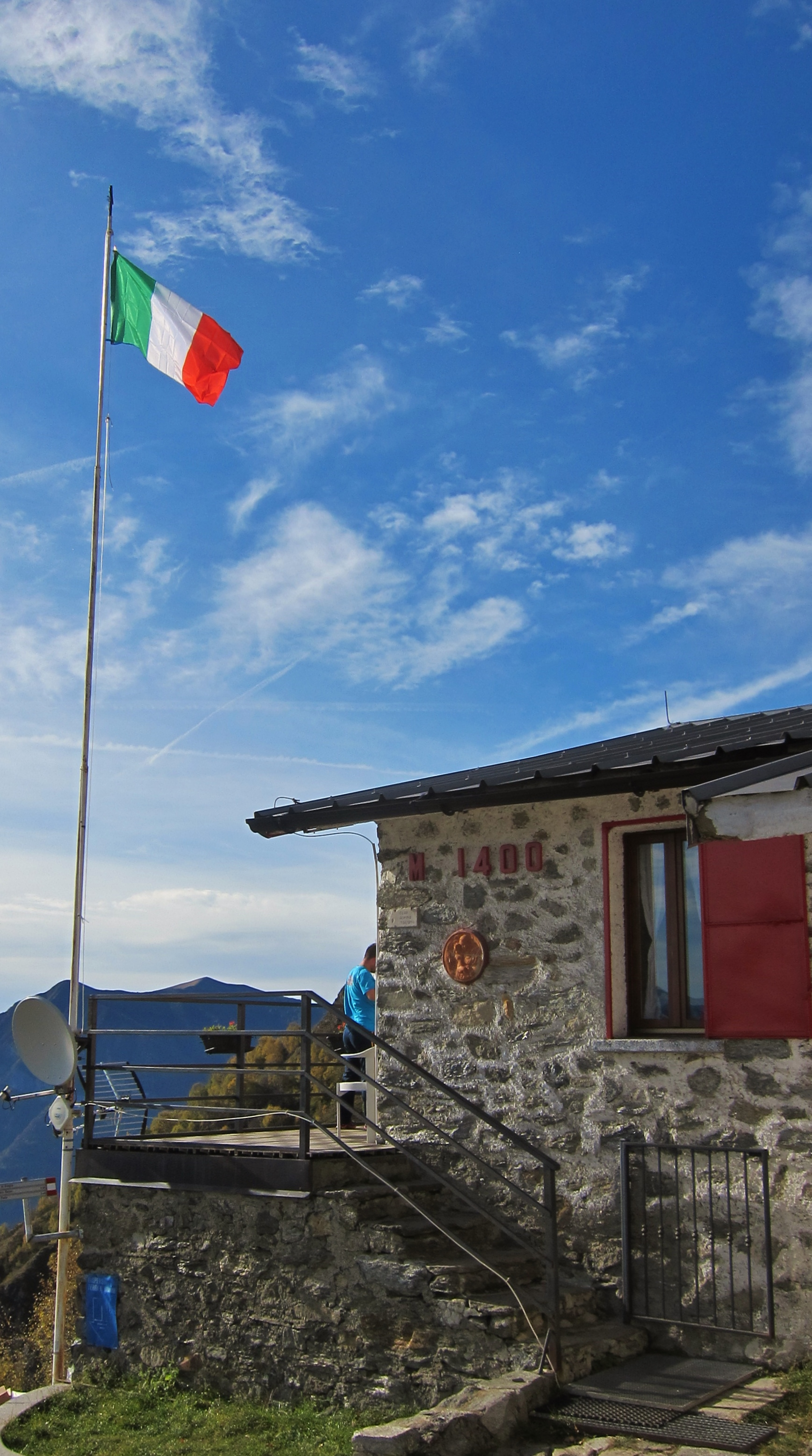 Alpine hut "Rifugio Menaggio" in the mountain Monte Grona. Mountain's location is in Plesio (Como) by the Como Lake. Picture taken on October the 25th in 2015.